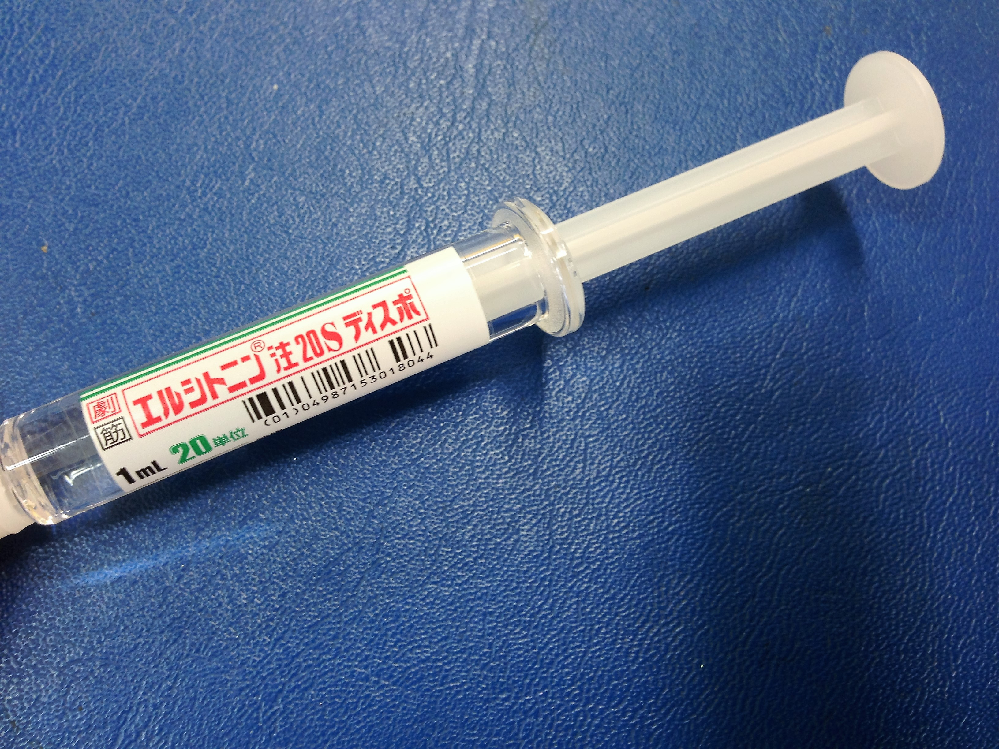 elcatonin / Elcatonin / C148 H244 N42 O47 hc-58;ELCATONIN;29-l-alanine-;ELCATONIN (EEL);CARBOCALCITONIN;Elcatonin Acetate;ELCATONIN, 98.0+%;CARBACALCITONIN (EEL);(ASU1'7)-CALCITONIN (EEL);[ASU1,7]-CALCITONIN (EEL)